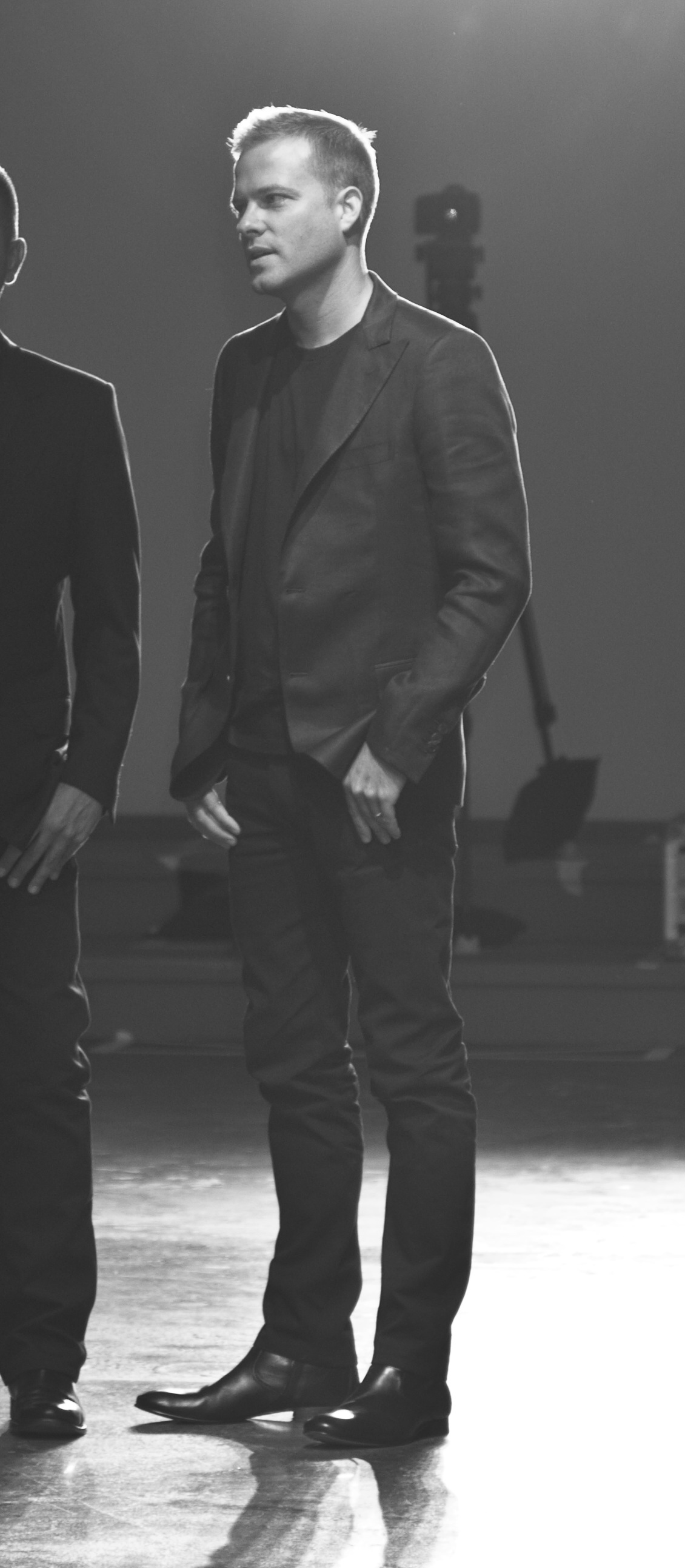 Simon Spurr prepares for the Spring 2012 fashion show in New York City.